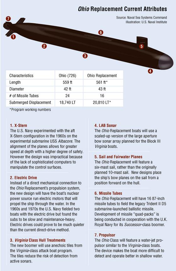 Ohio replacement current attributes.